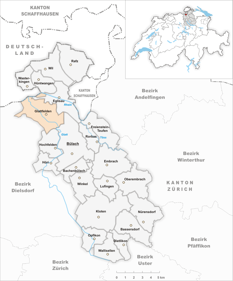 Municipality Glattfelden